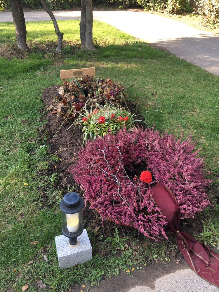 Grave of Rudolf Hundstorfer at the Vienna Central Cemetery.